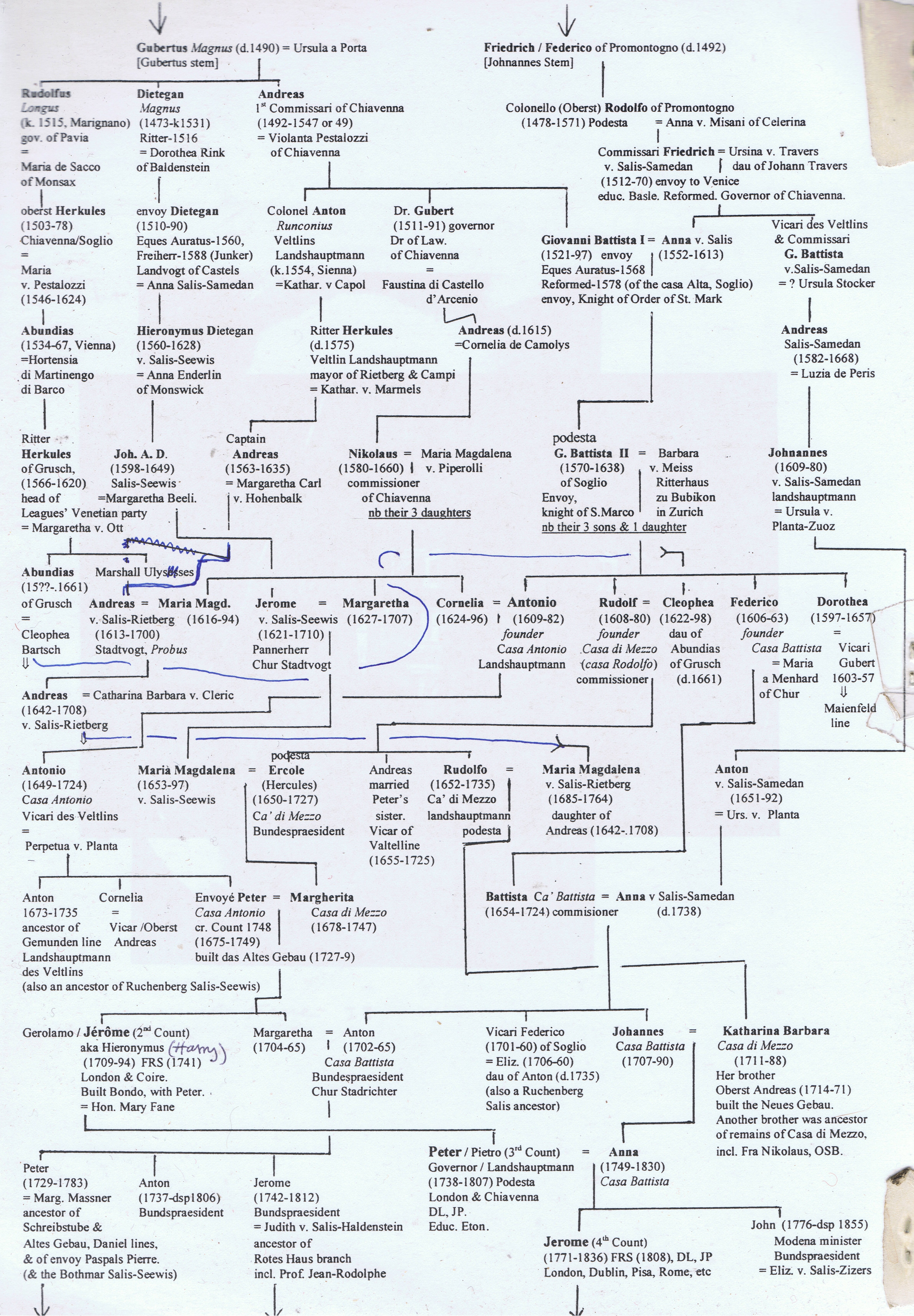 Scan of chart (both by me, R. de SalisRodolph (talk) 22:27, 26 May 2014 (UTC)). Some of nine generations of ancestors of Jerome de Salis (1771-1836), showing his connections to the houses of Salis-Soglio (Casa Antonio, Casa Battista Casa & di Mezzo); Salis-Marshchlins; Salis-Samaden; etc.